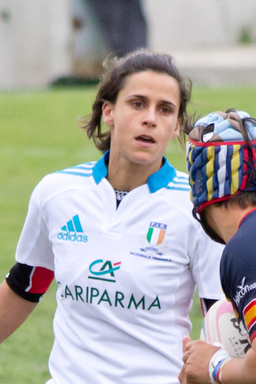 Italian rugby union player Sara Barattin playing for her National team against Spain on 27 April 2015 at the Complutense Stadium, Madrid, Spain